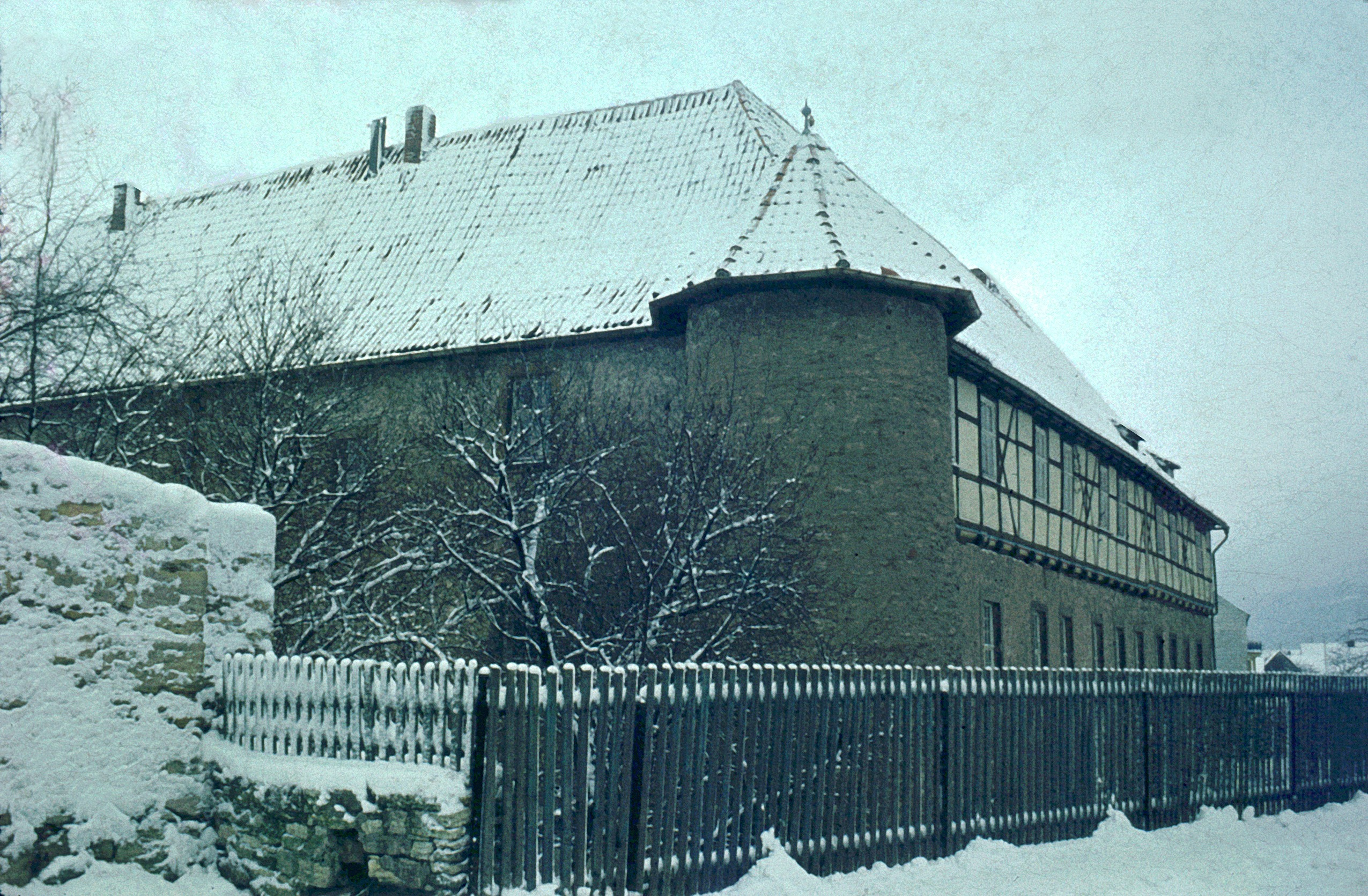 Deuna, the moated castle